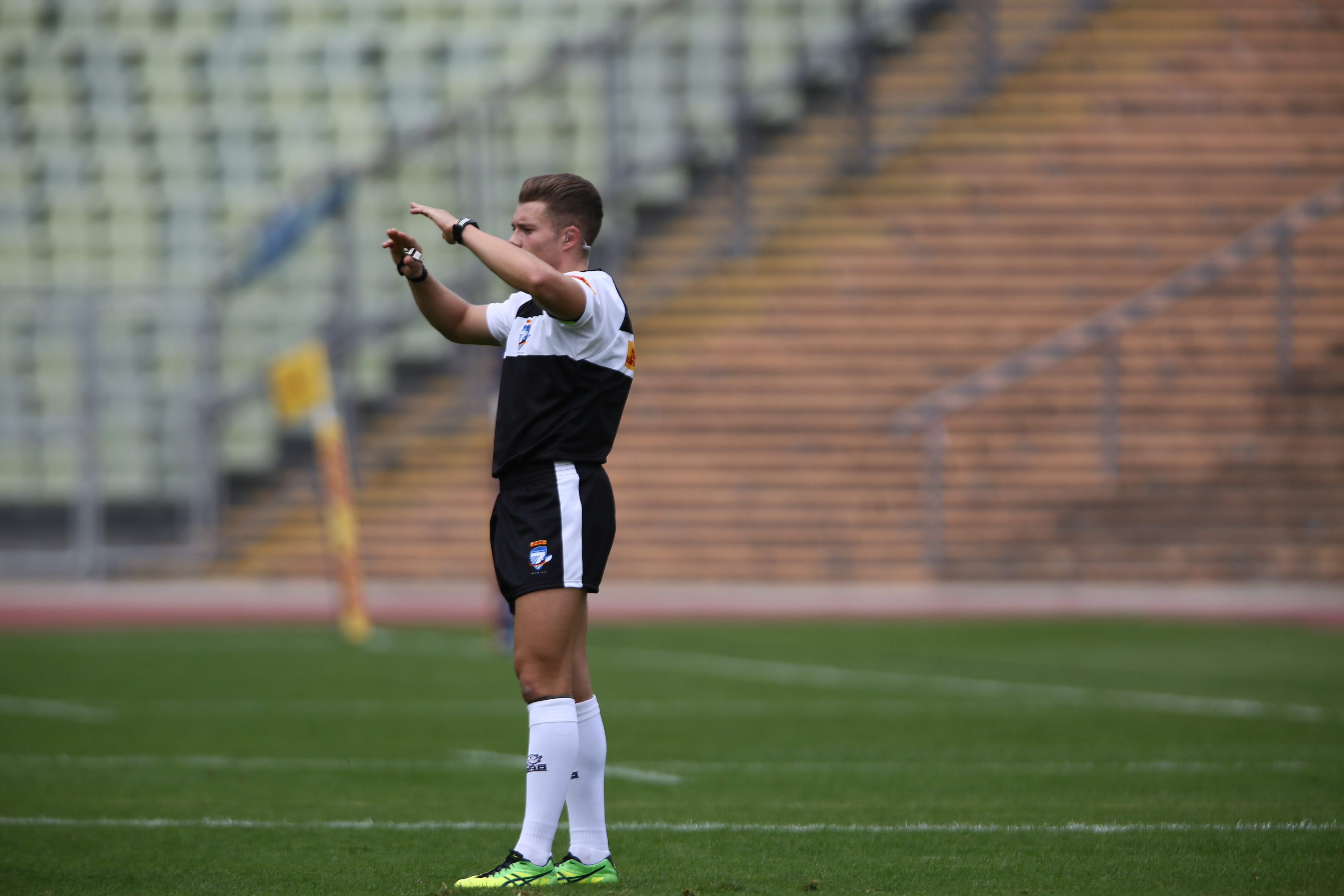 Rugby tournament "Oktoberfest 7s", Munich, 2017-09-29/30 at the Olympic stadium of Munich